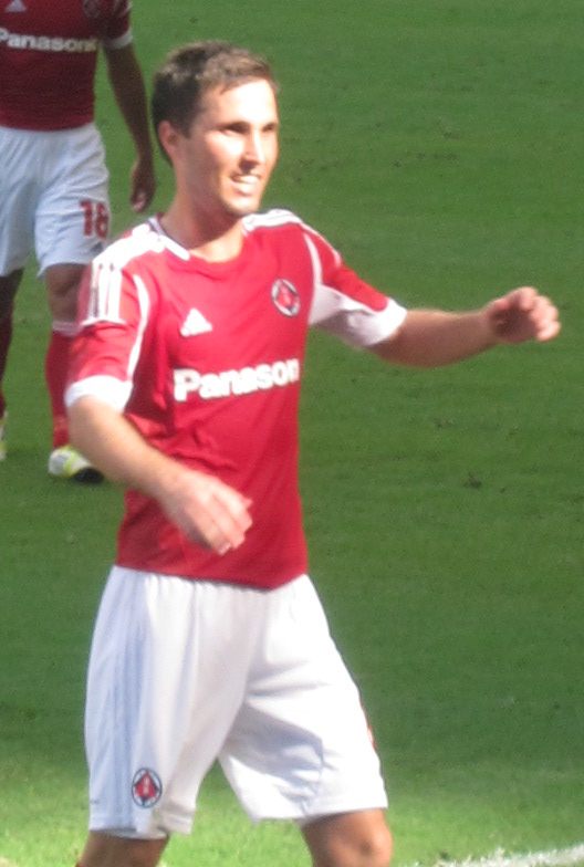 Carlos Augusto Bertoldi (Ticão) (2 September 2012, 2012–13 Hong Kong First Division League vs Yokohama FC Hong Kong at Hong Kong Stadium)